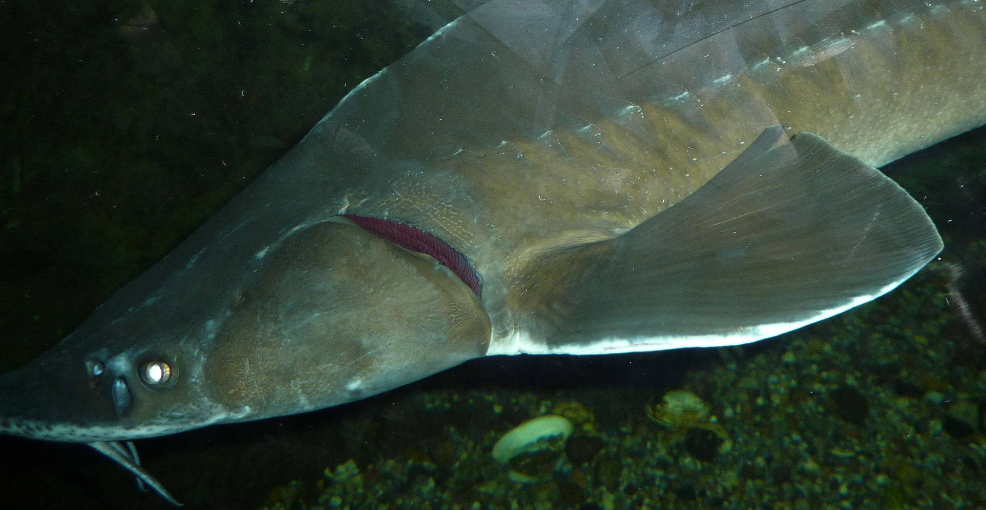 Siberian sturgeon (Acipenser baerii)